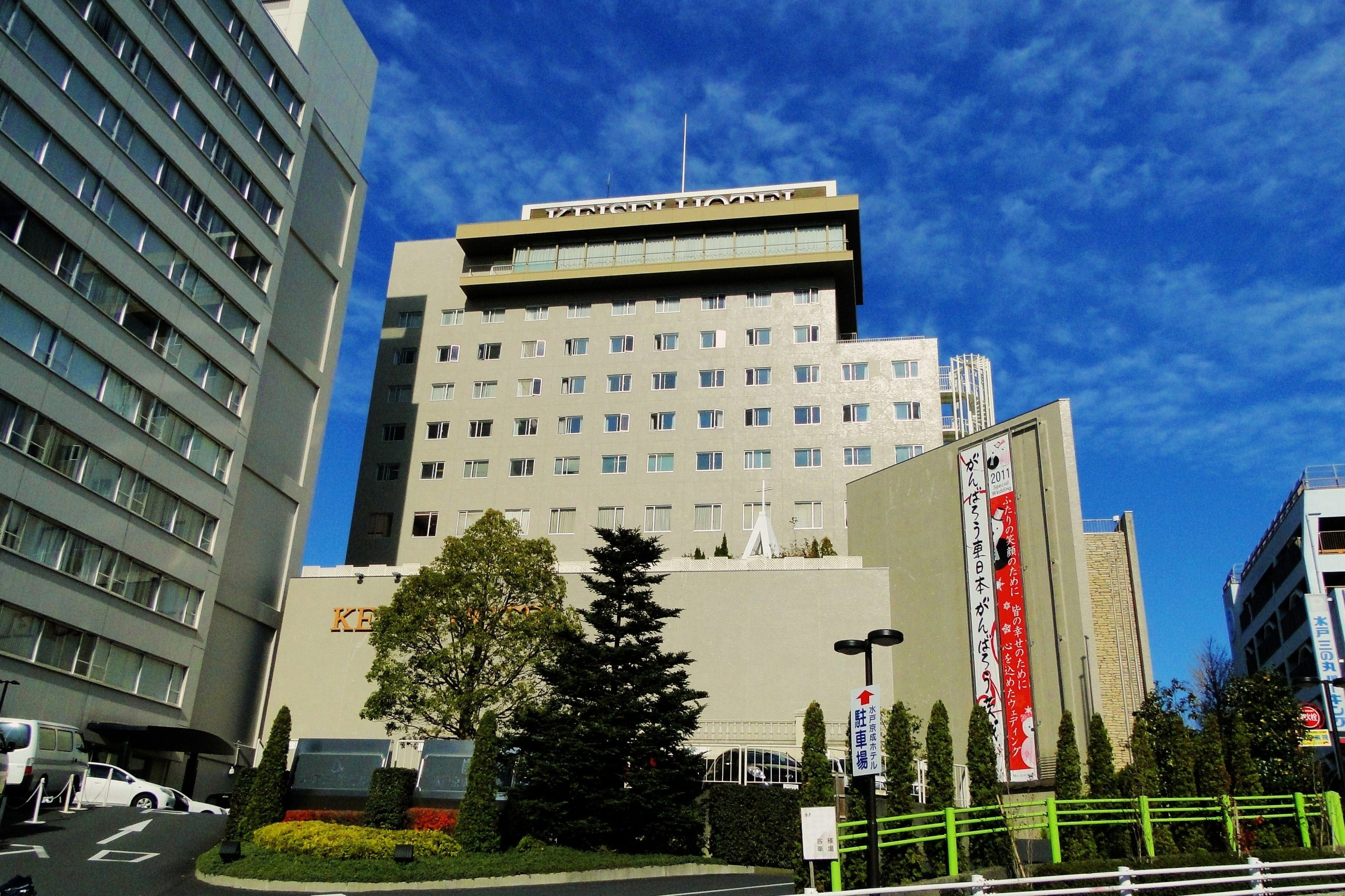 The Mirame Mito Keisei Hotel in Mito, Japan